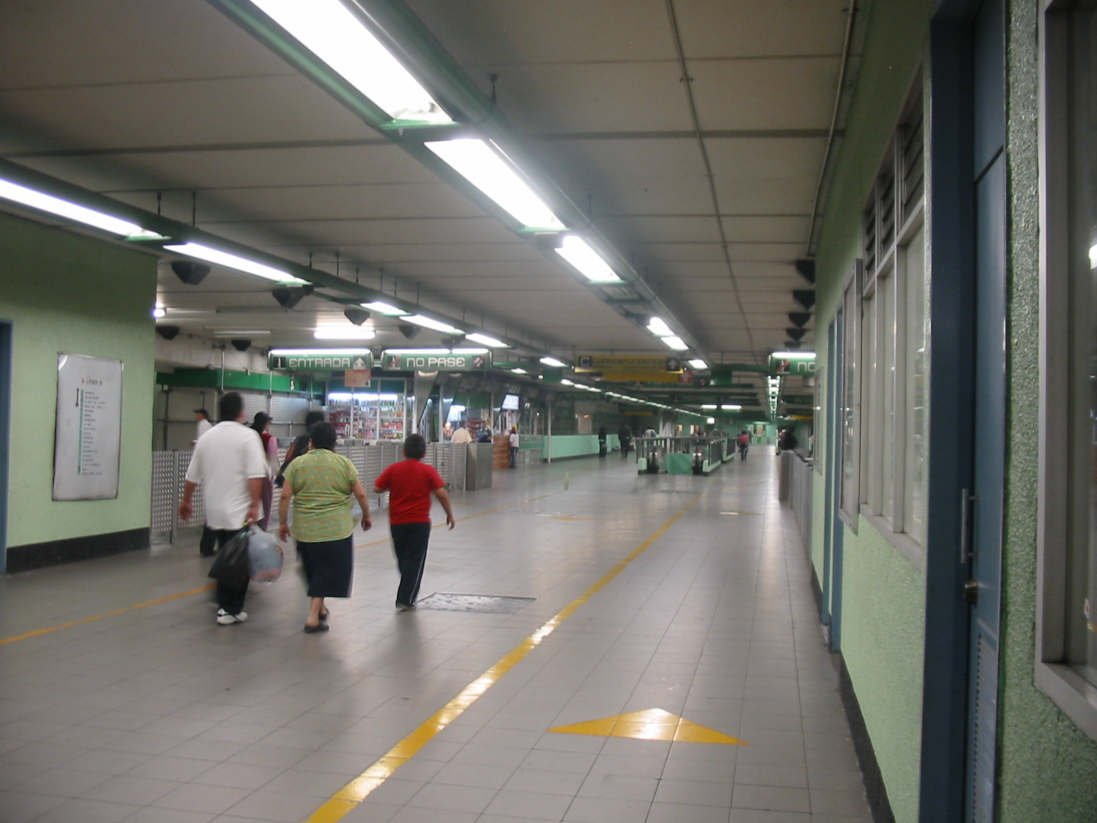 Part of corredor that connects Lines 1 and 8 at Metro Salto del Agua in Mexico City